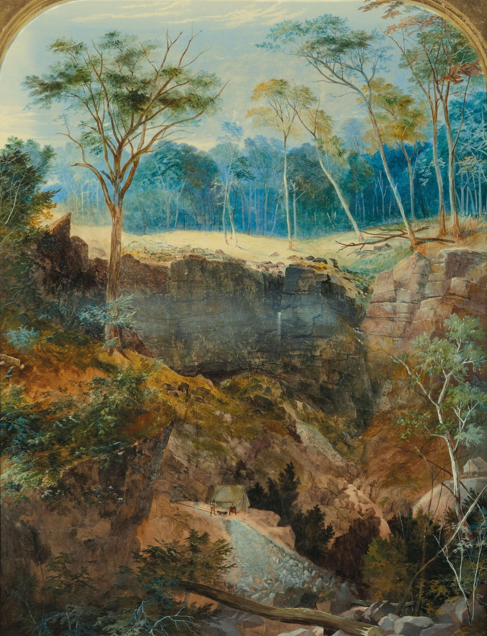 Deep Gully Mine, near Bendigo, watercolour on paper on linen, 91.5 x 68.5cm.